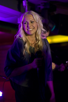 Norwegian singer/songwriter. Live in Metro Nightclub, Bergen, Norway while performing for a charity benefit for the Norwegian Cancer Society. Photographer: Pascual Strømsnæs (